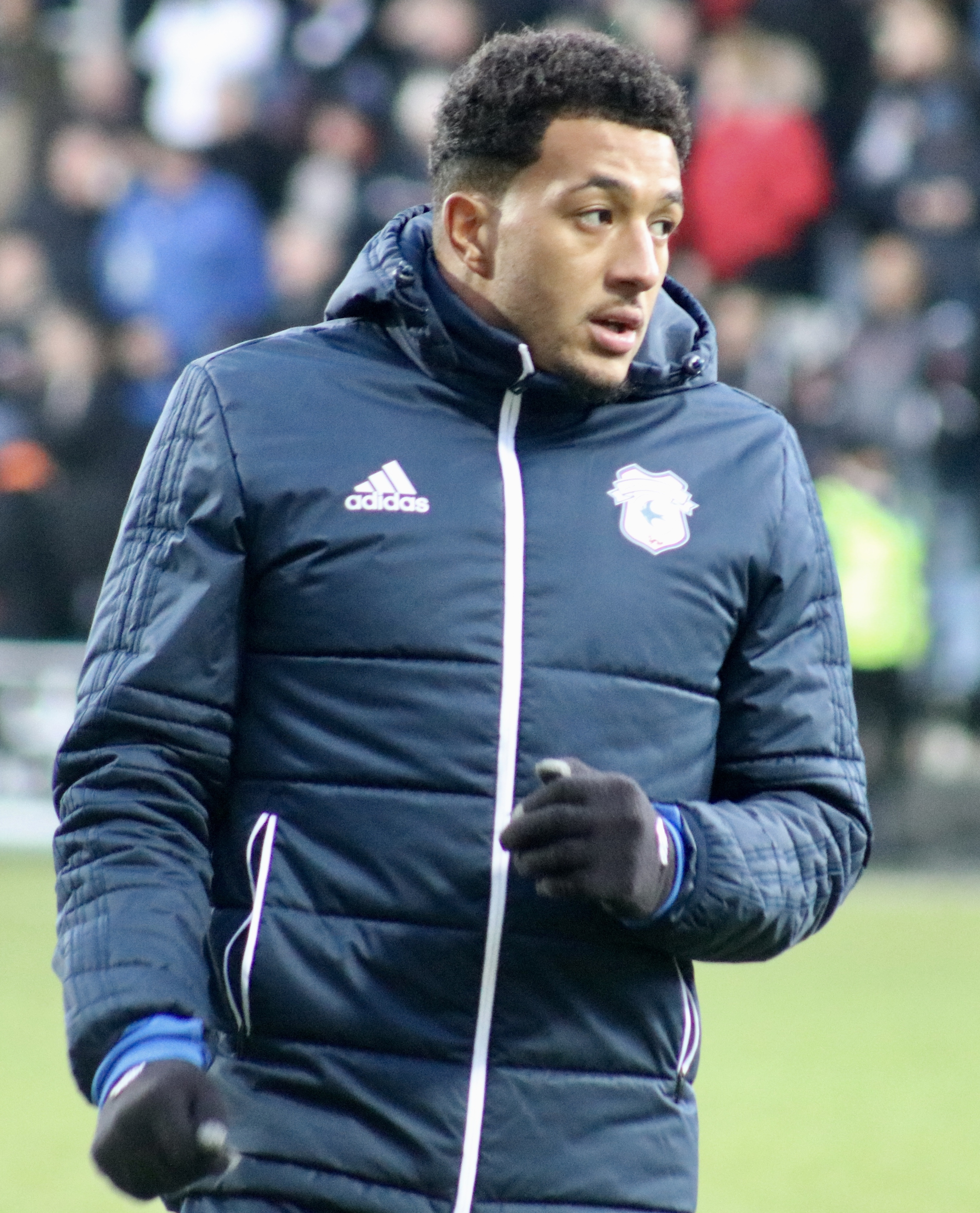 taken playing for Cardiff